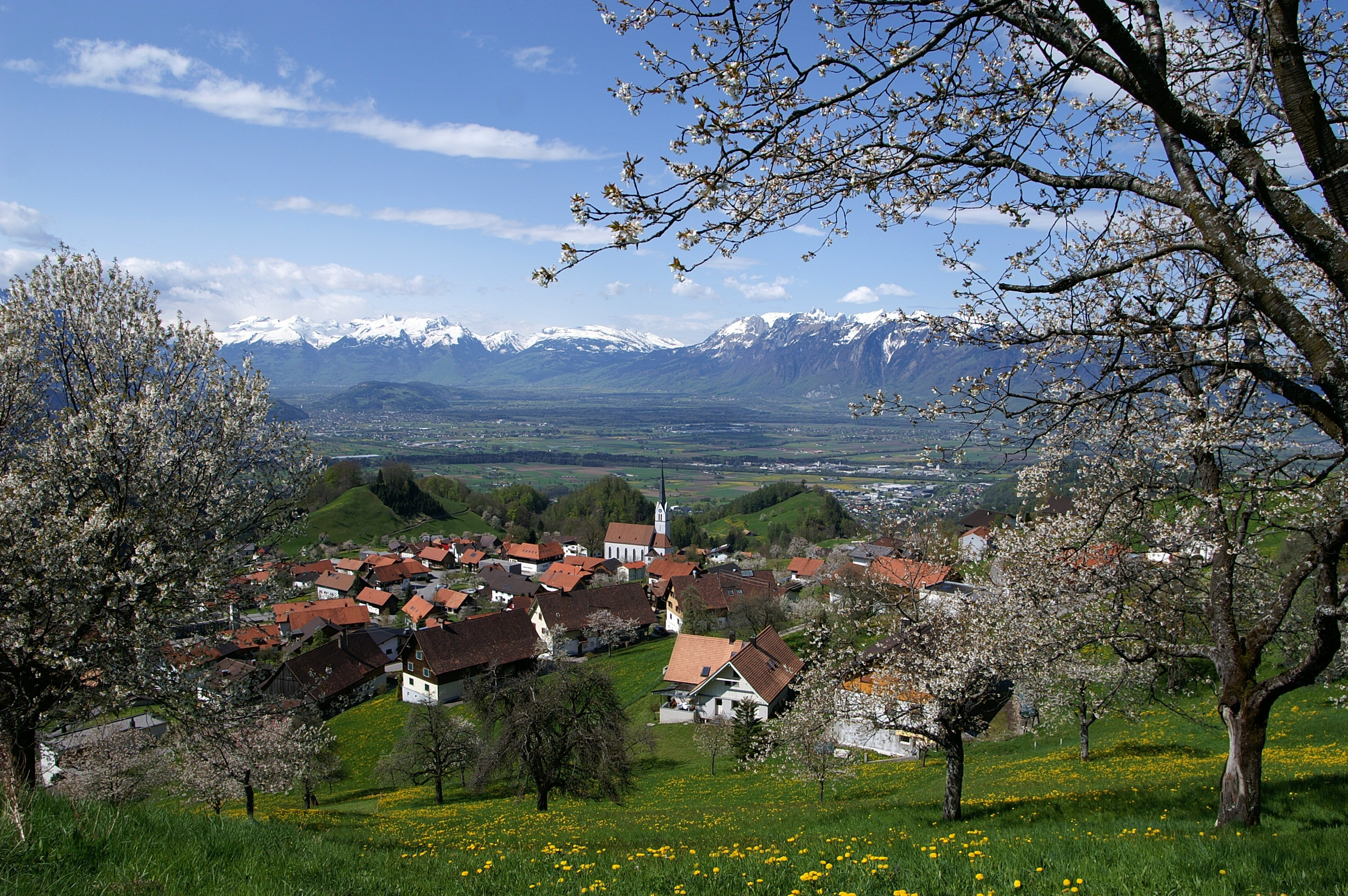 A view over blooming cherry trees towards the centre of the Austrian village Fraxern in Vorarlberg. Rhinevalley and swiss mountains (Alpstein) in the background.